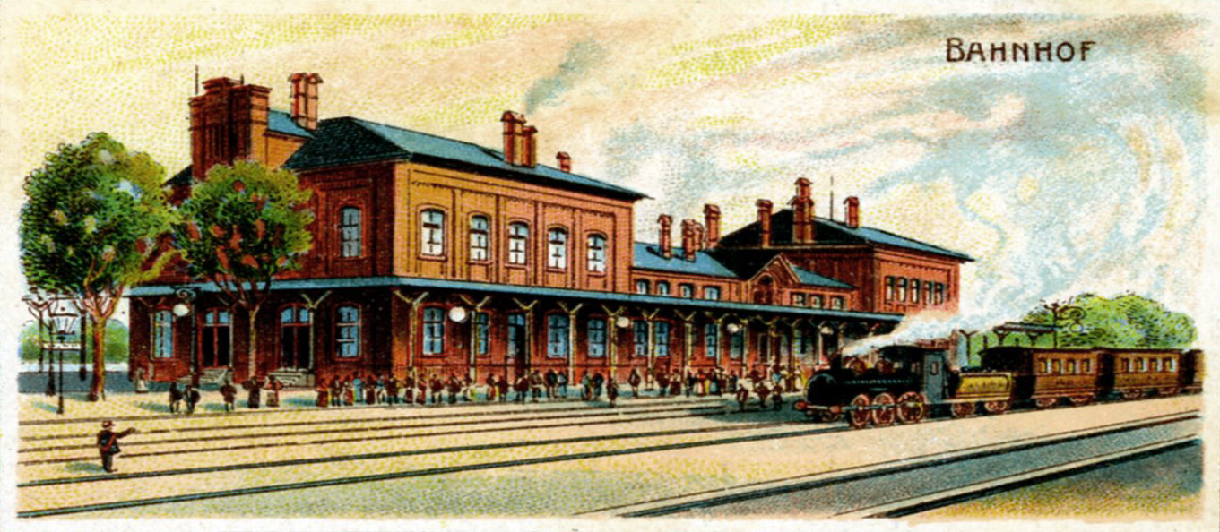 View to the railway station Nordstemmen about 1897.